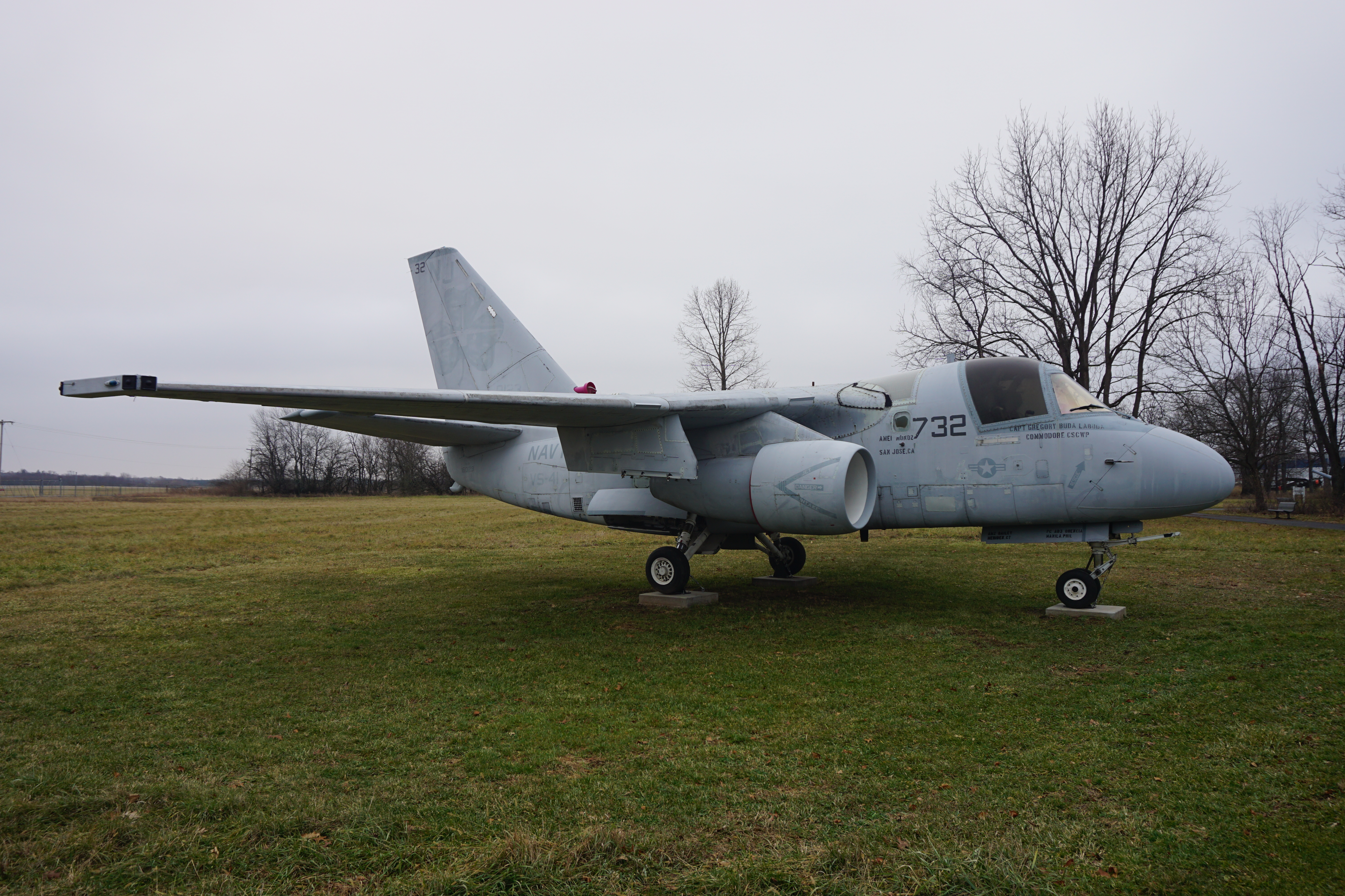 A Lockheed S-3 Viking on display at the Air Zoo at Kalamazoo/Battle Creek International Airport in Portage, Michigan (United States).